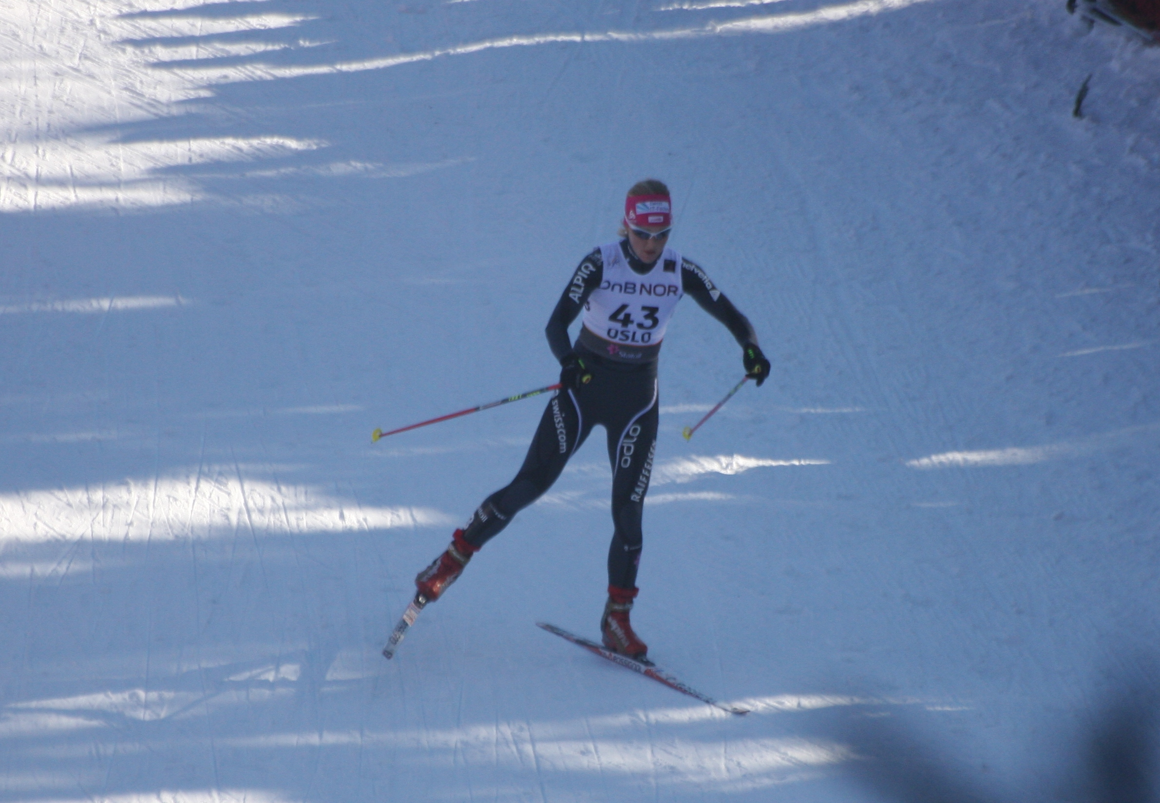 Silvana Bucher, Switzerland, at 17 km in the women's 30 km cross country, FIS Ski World Championship Oslo 2011.